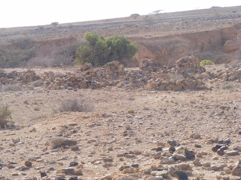 Scenes of ruins of Qombo'ul, Sanaag, Somalia